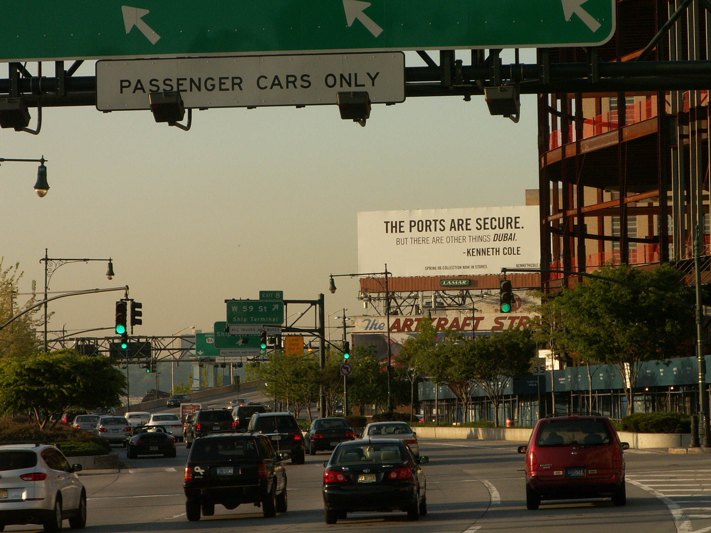 West Side Highway by the Passenger Shipping Terminal in Hell's Kitchen. The Clinton Cove segment of Hudson River Park is on the left. The Ken Cole advertisement notes the 2006 controversy to have a Dubai company take over the ports in New York and New Jersey.